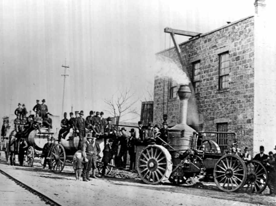 The Oshkosh Steam Wagon, one of two steam wagons that participated in a 200 mile race in Wisconsin in 1878